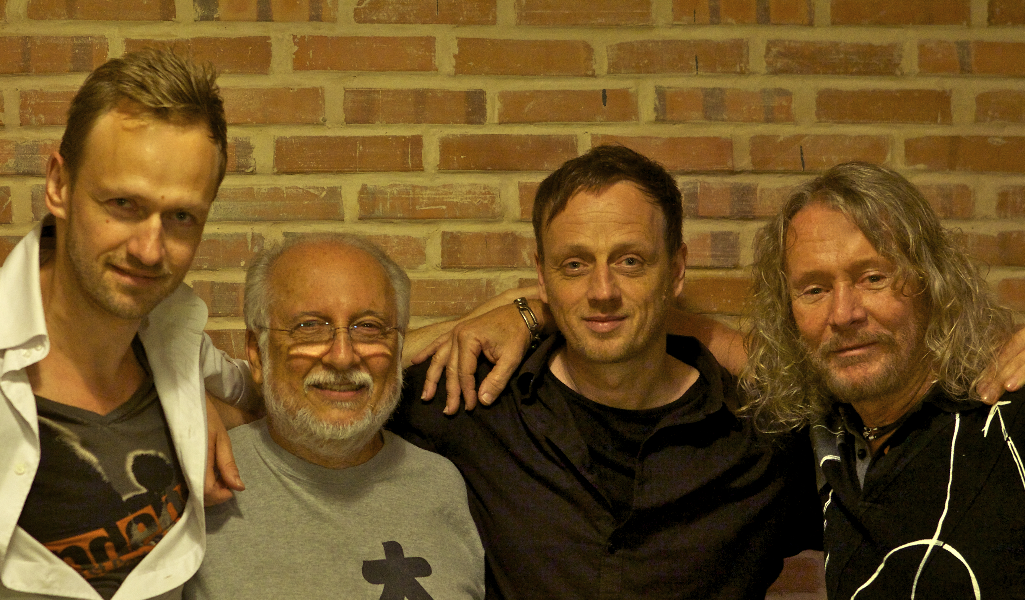 Berman Brothers ( Frank & Christian Berman) with Lifetime Achievement Grammy Award recipient and brazilian artist Marcos Valle